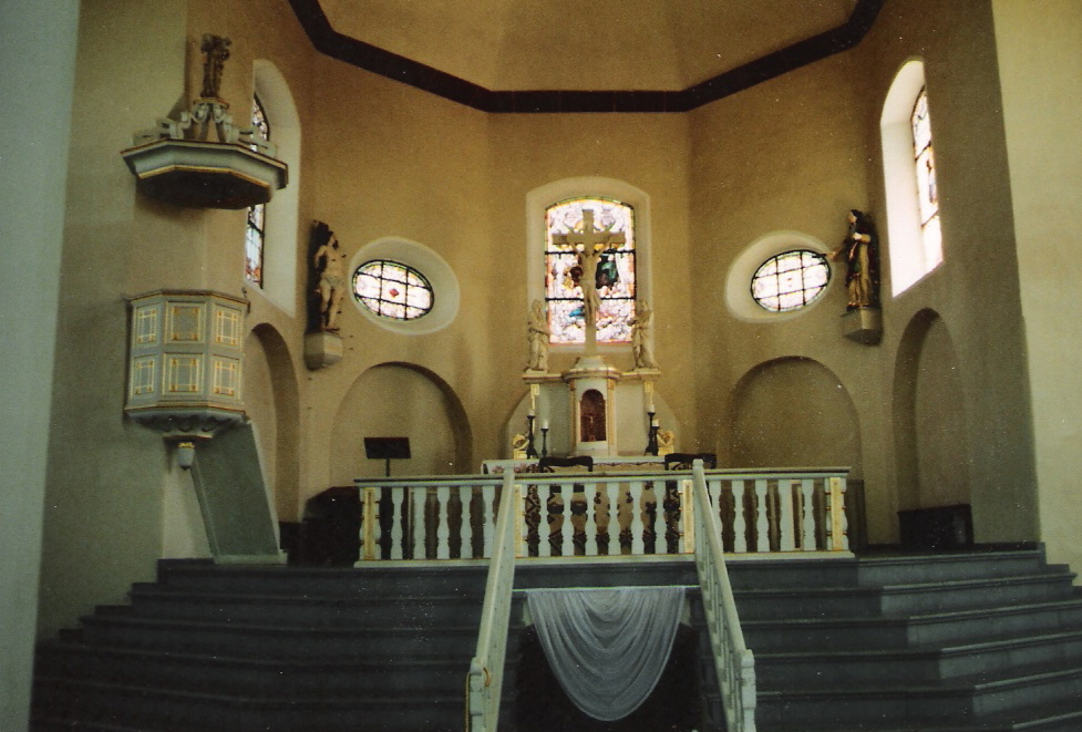 Inside the Crosschapel at Bad Camberg